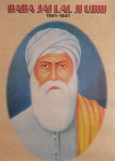 Picture of Baba Jai Lal Ji Ubhi